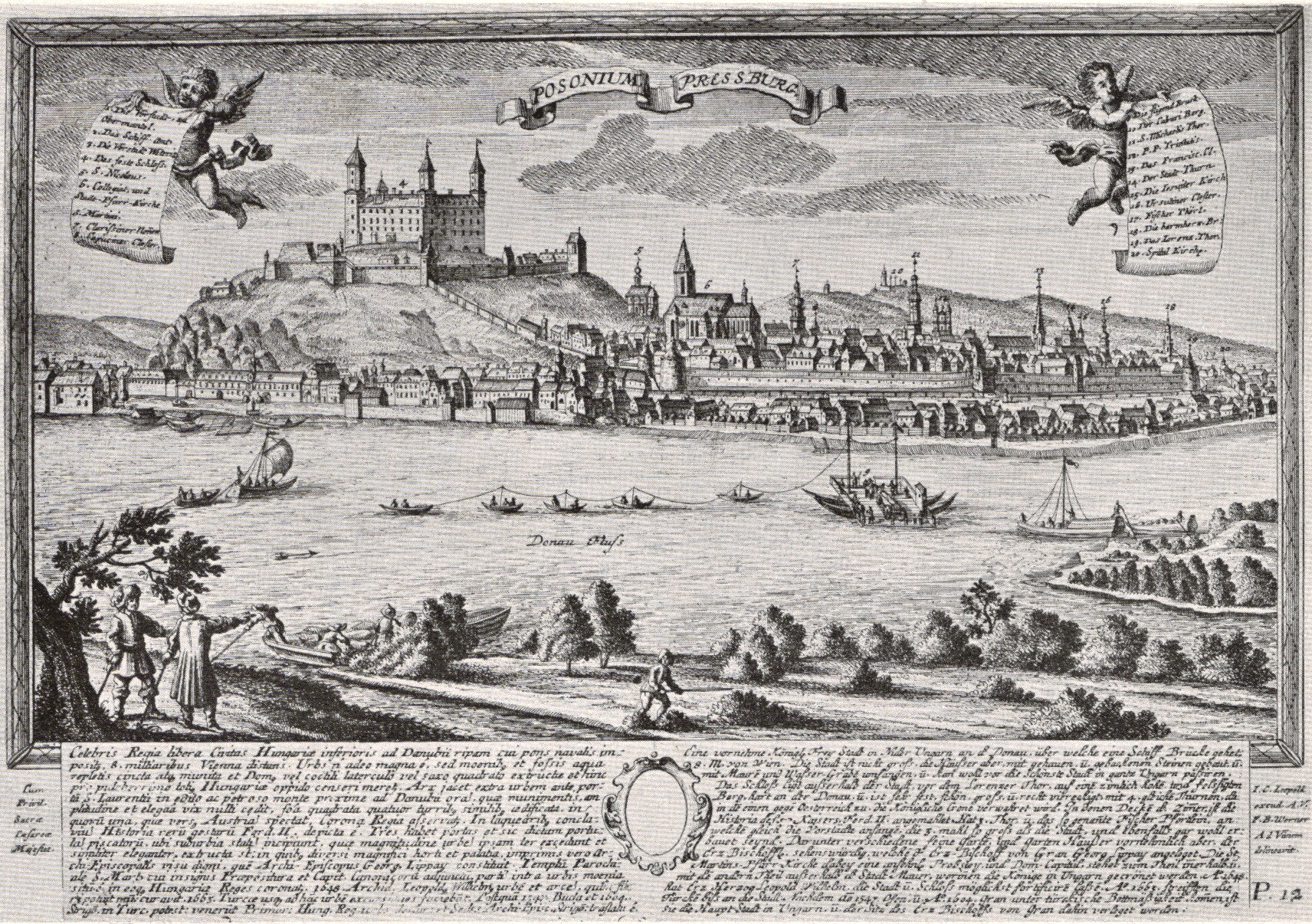 Bratislava in the Baroque era